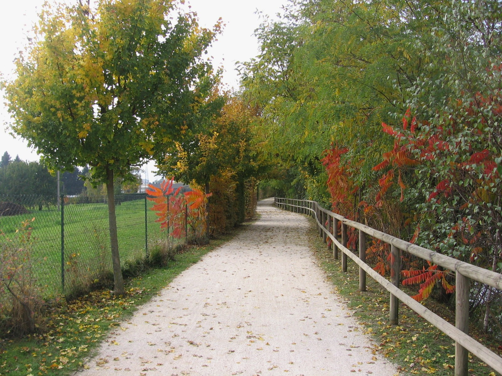 Cycleway near Pradalunga, in Seriana Valley, Bergamo (Italy)